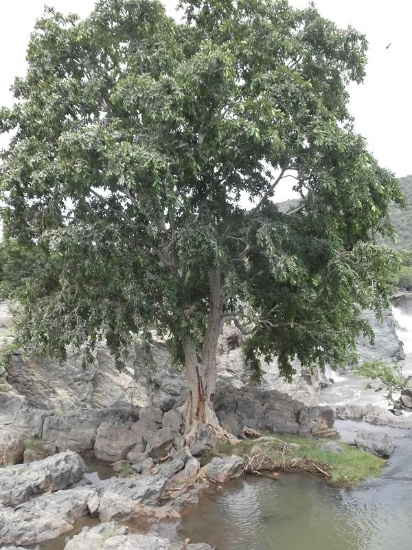 Terminalia arjuna tree at the Hogenakkal Falls in Dharmapuri district, Tamil Nadu, India.